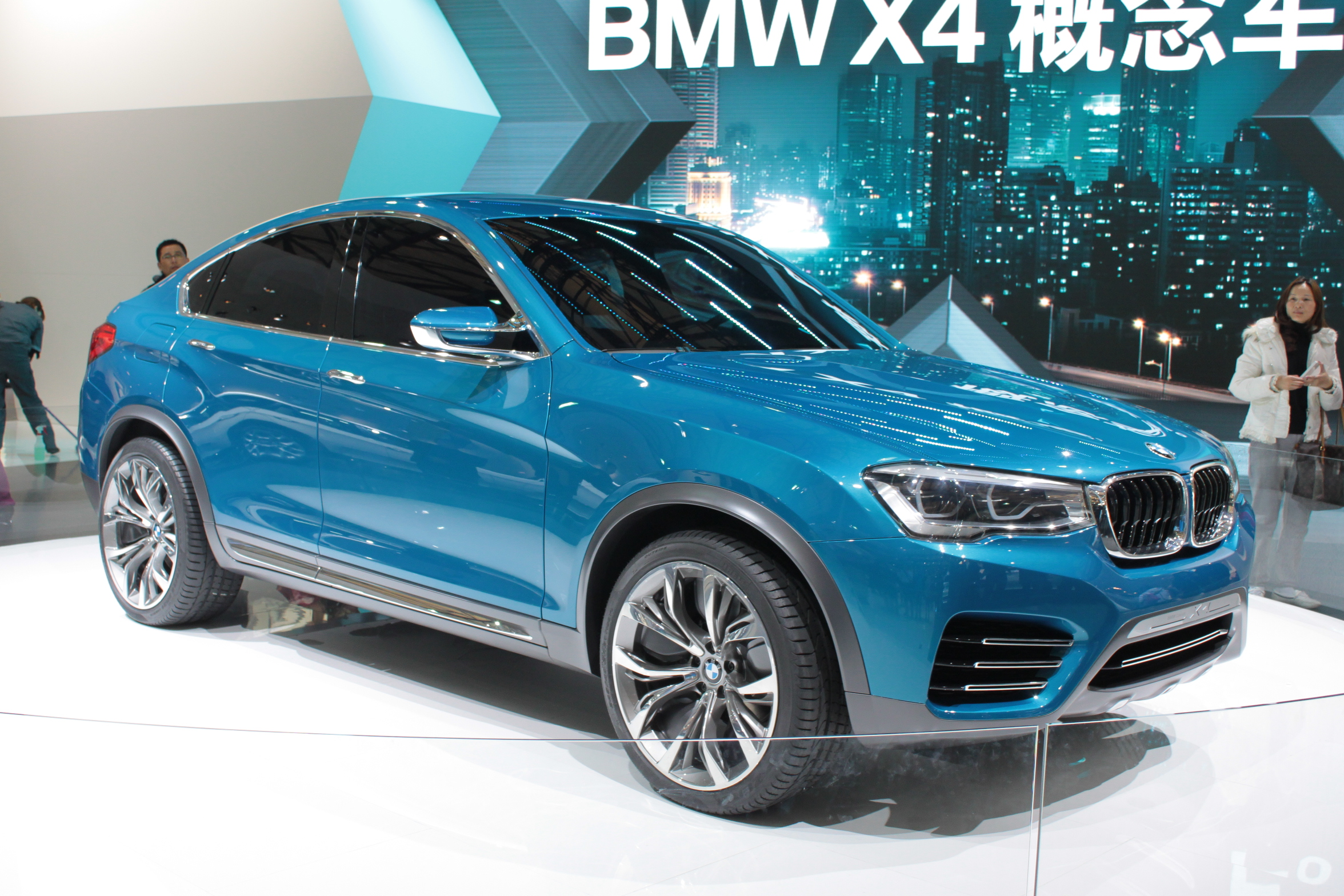 BMW concept X4 at Auto Shanghai 2013